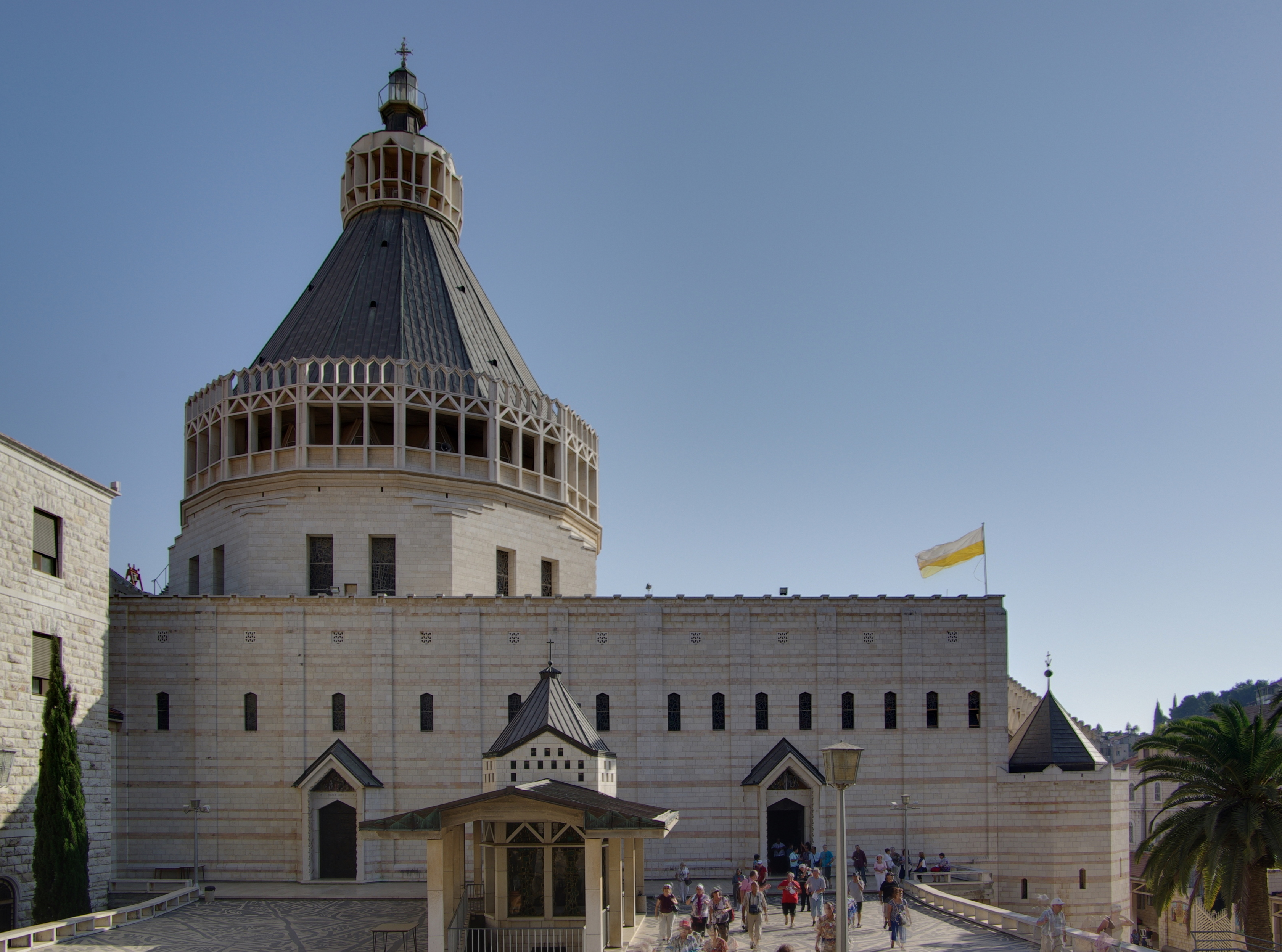 Church of the Annunciation, Nazareth, Israel